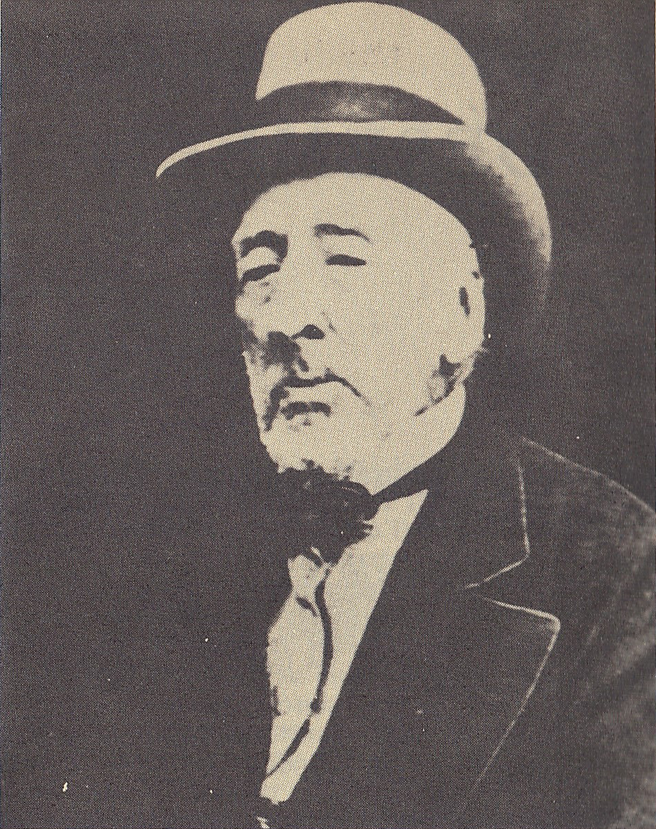 Andreas Theodorus Spies